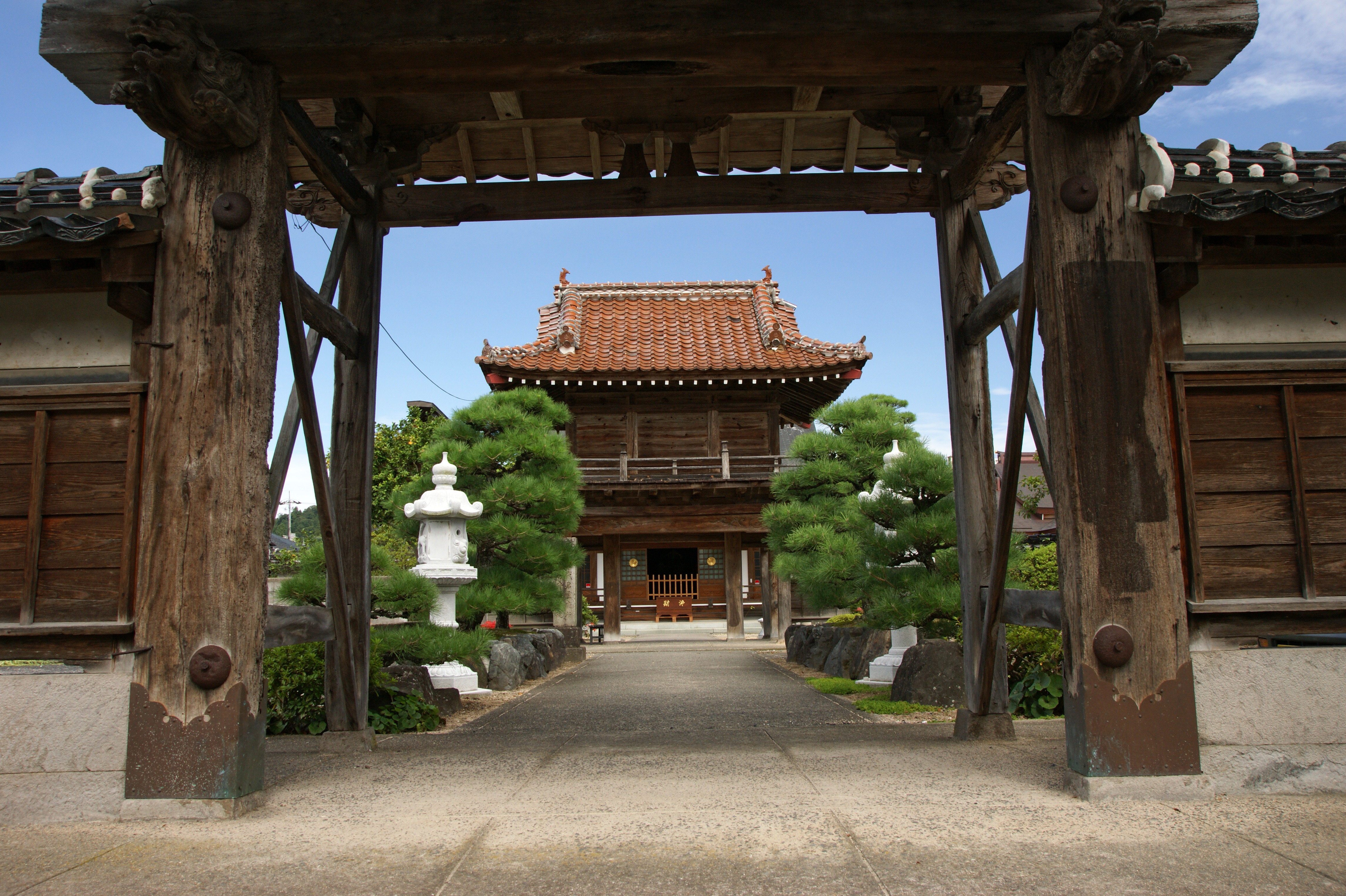 Daigakuin in Kurayoshi, Tottori prefecture, Japan